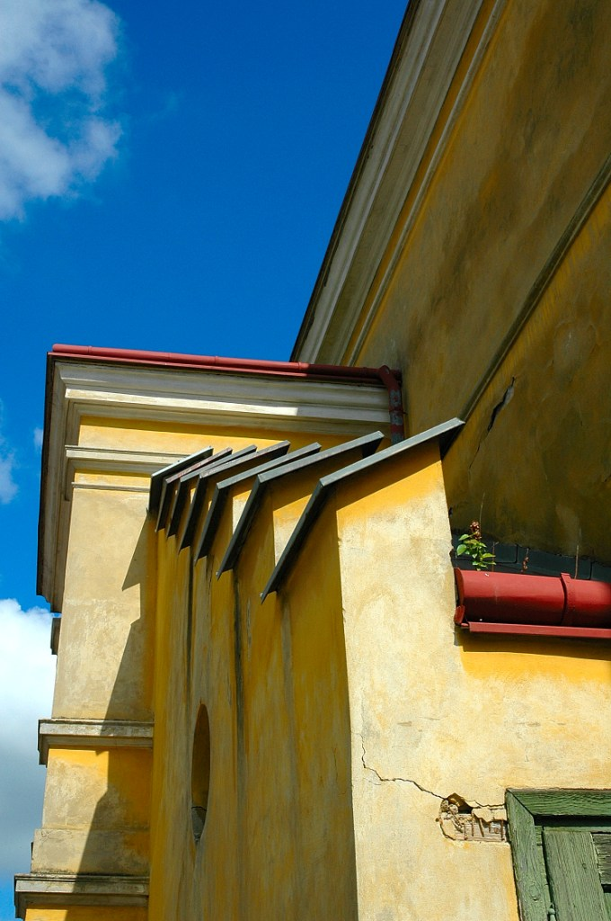 Synagogue in Łańcut